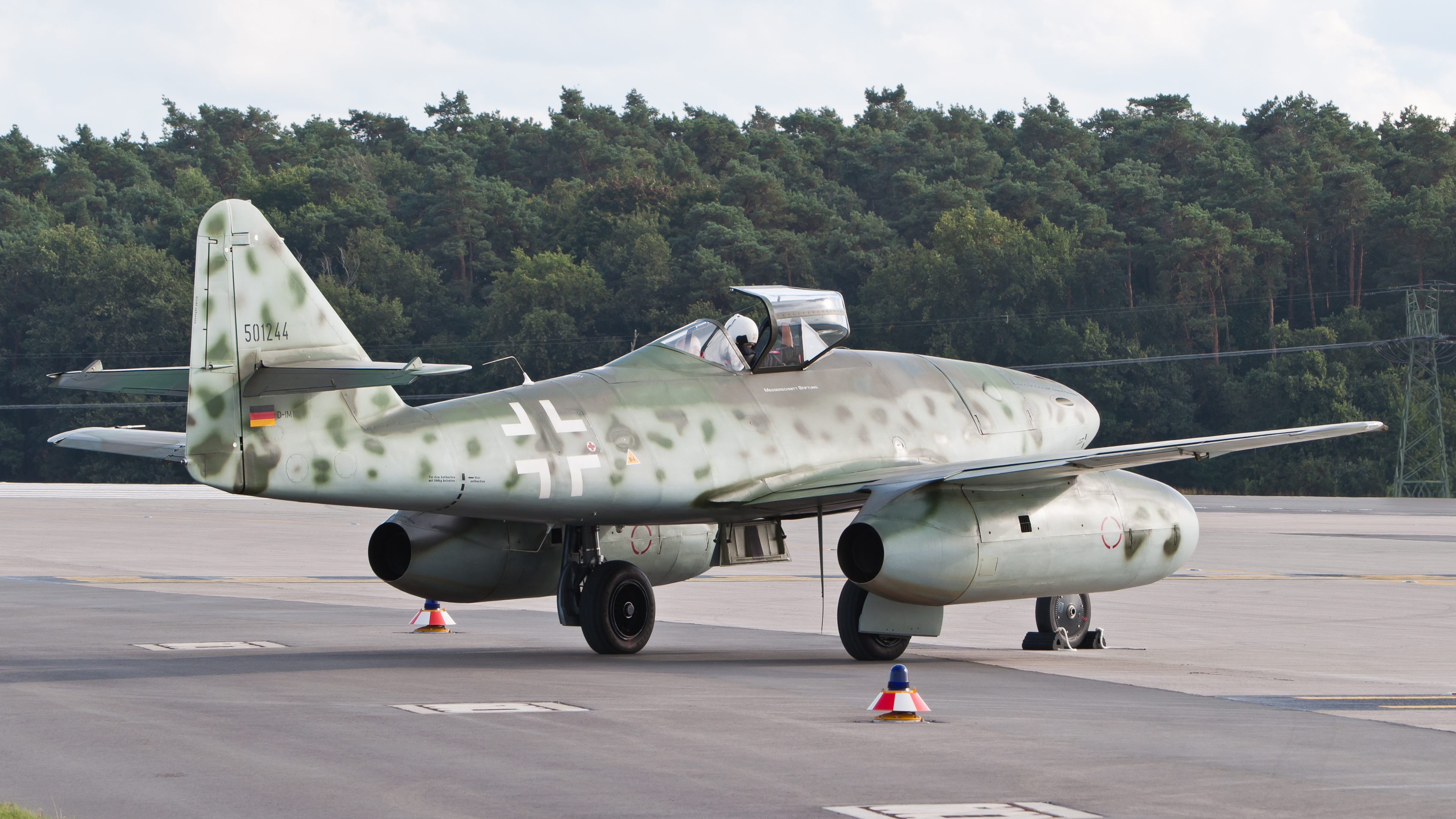 D-IMTT Messerschmitt Me 262 replica (Messerschmitt foundation) at ILA Berlin Air Show 2012.